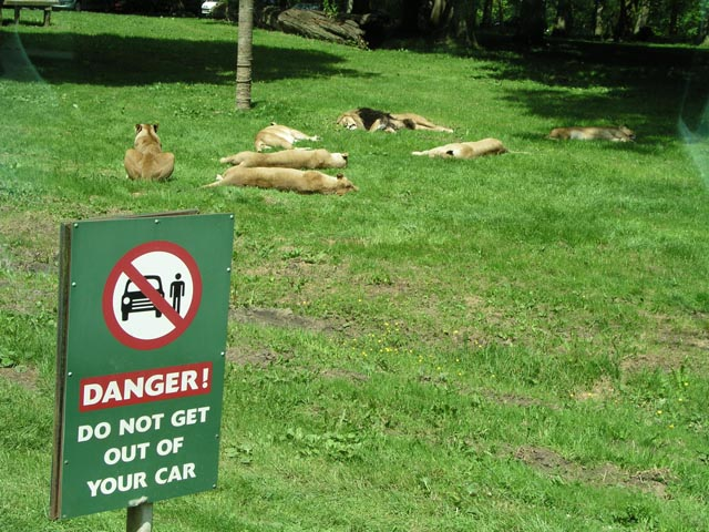 Good advice! Or you'll find out just how slow those lions really are! Lions at Longleat Safari and Adventure Park at Longleat House, Wiltshire, United Kingdom